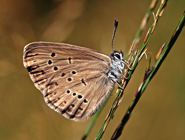 Butterfly, butterflies